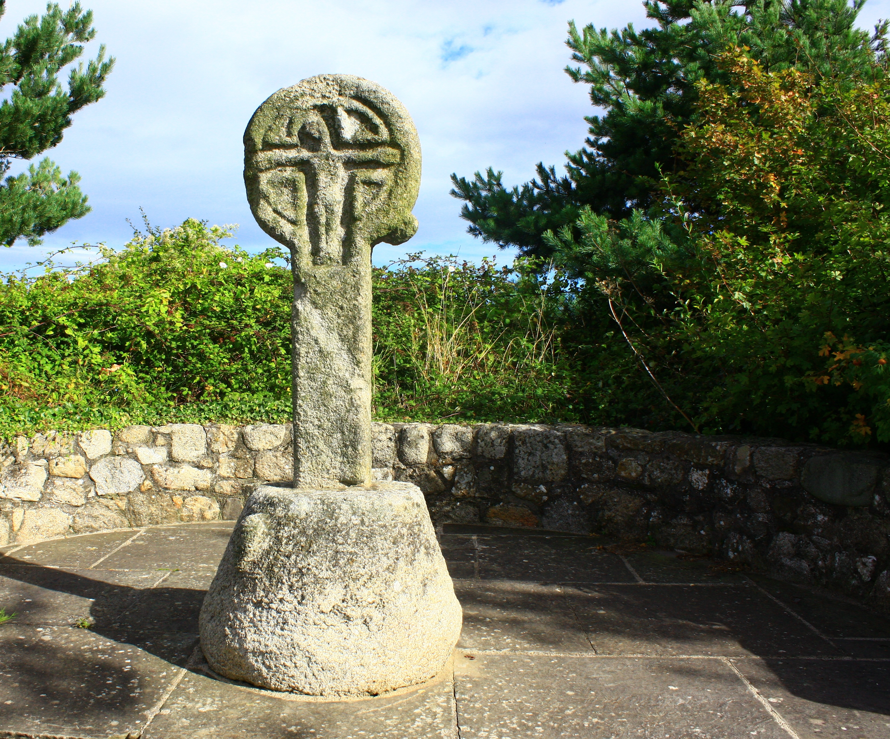 Fassaroe Cross. This may be an early ecclesiastical site although the cross was allegedly brought here from elsewhere. It is a small granite cross with an unpierced ring. On the west face there is a Crucifixion and on the east face there are two worn human heads. Both of them are apparently bearded and one of them may have a mitre. There are two other much worn heads, one on the lower south edge of the cross-head and the other on the north-east side of the base. The date of the cross is uncertain but it is probably 15th or 16th century.